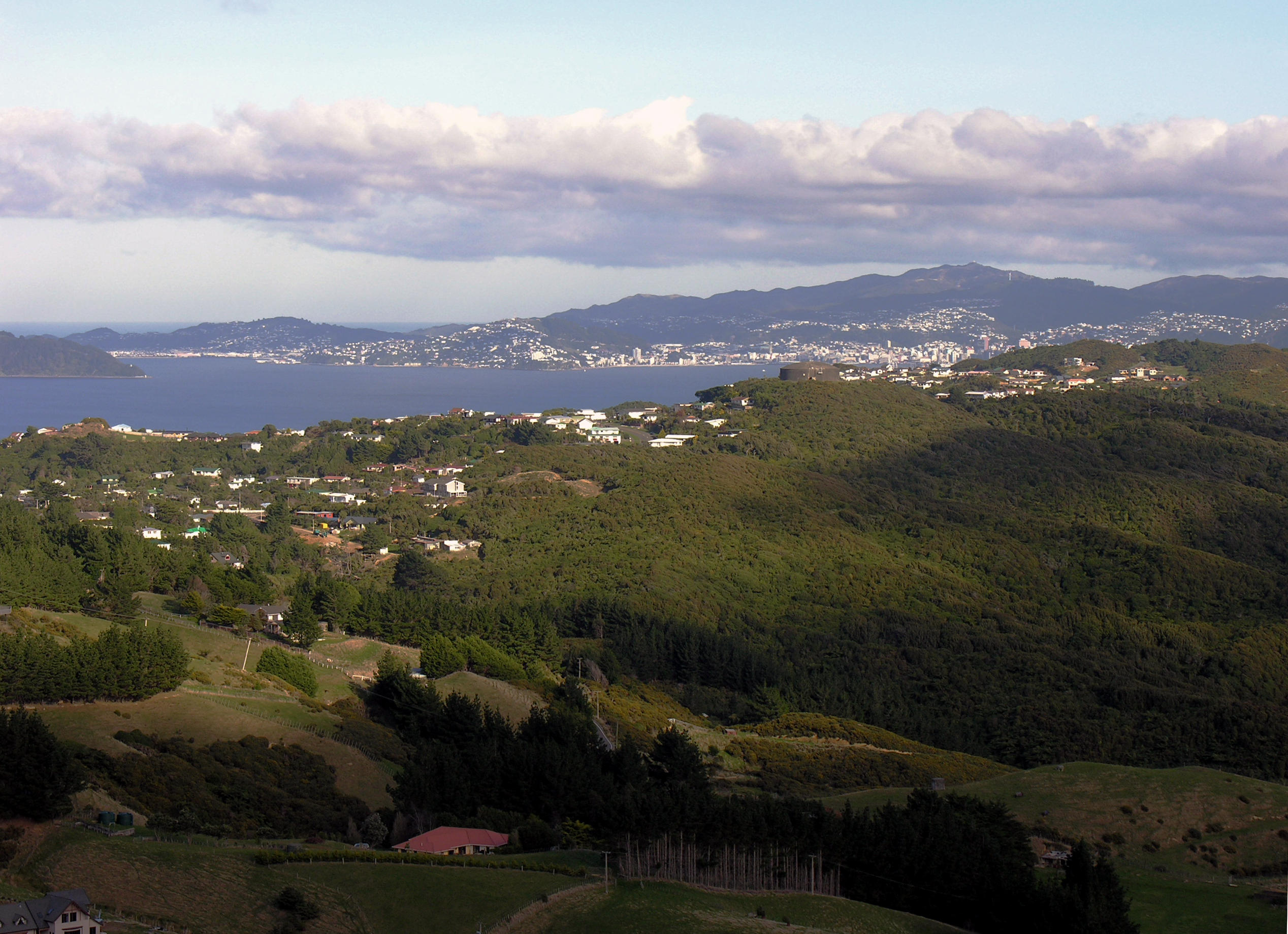 Wellington, New Zealand and Wellington Harbour.